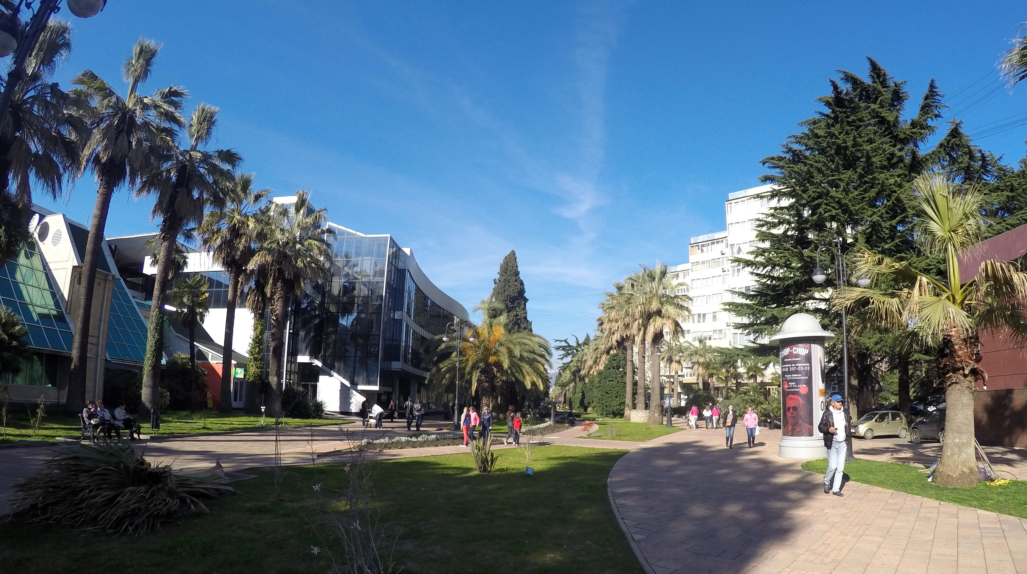 Navaginskaya street in Sochi